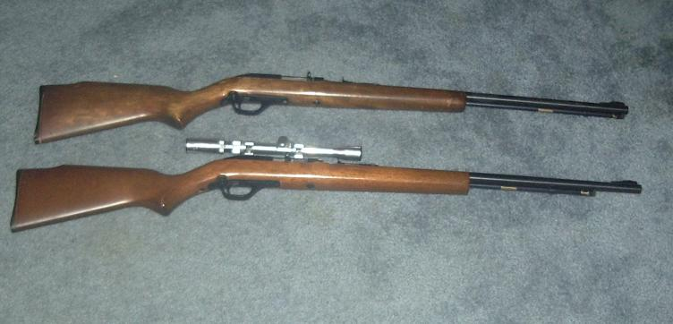 The 17 round tube magazines were offered until at least 1990. I have a 1990 year production rifle sn #1035XXX with the 17 round magazine and the hold open feature. This rifle was originally sold in Georgia.